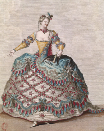 "Indian woman" (costume for the opera-ballet "les Indes galantes" by Jean-Philippe Rameau) (circa-1735)